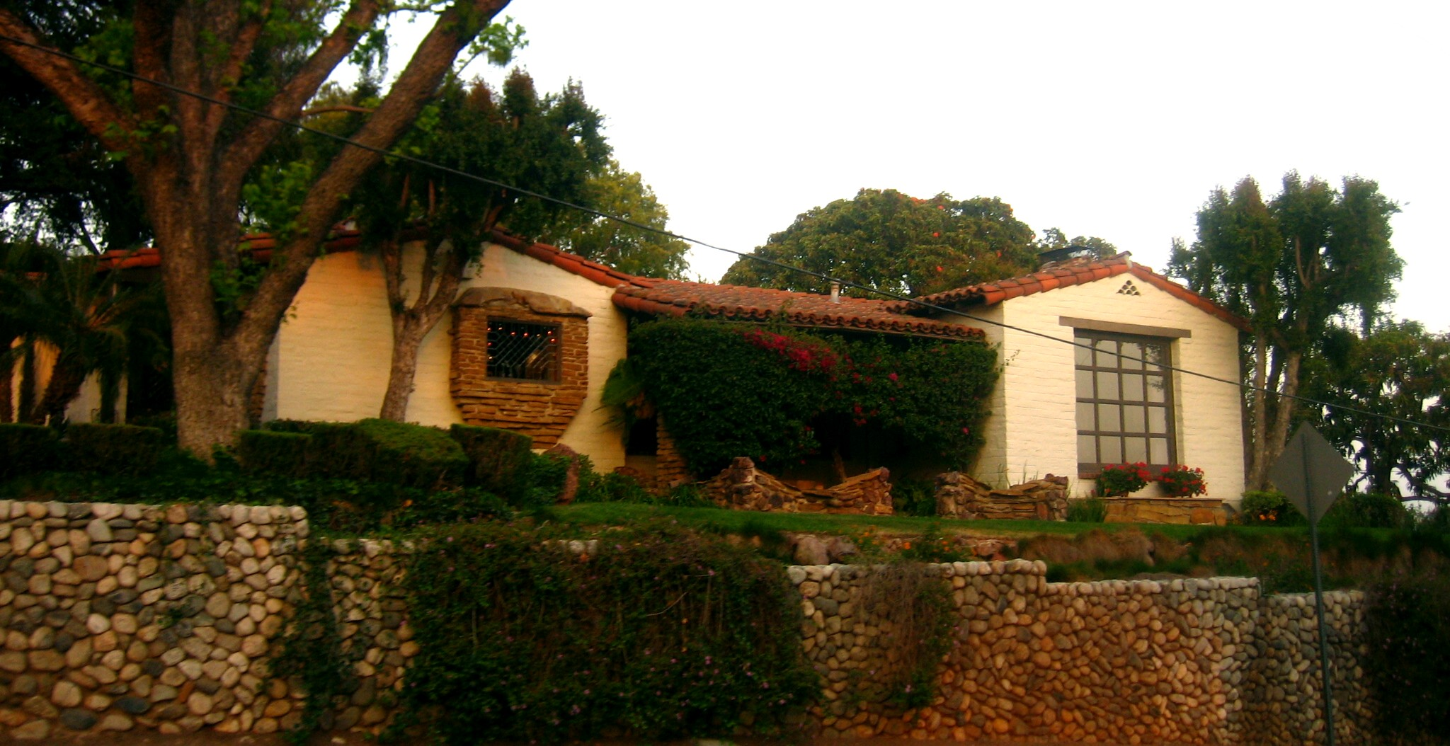 A Spanish Colonial Revival Style residence at 16741 East Buena Vista Avenue (built c.1933–1935) located in the unincorporated Orange County community of Olive, California. View from North Oceanview Avenue, looking east southeast. The photograph was taken with a Canon PowerShot SD400 digital camera and edited using ArcSoft PhotoStudio 5.5